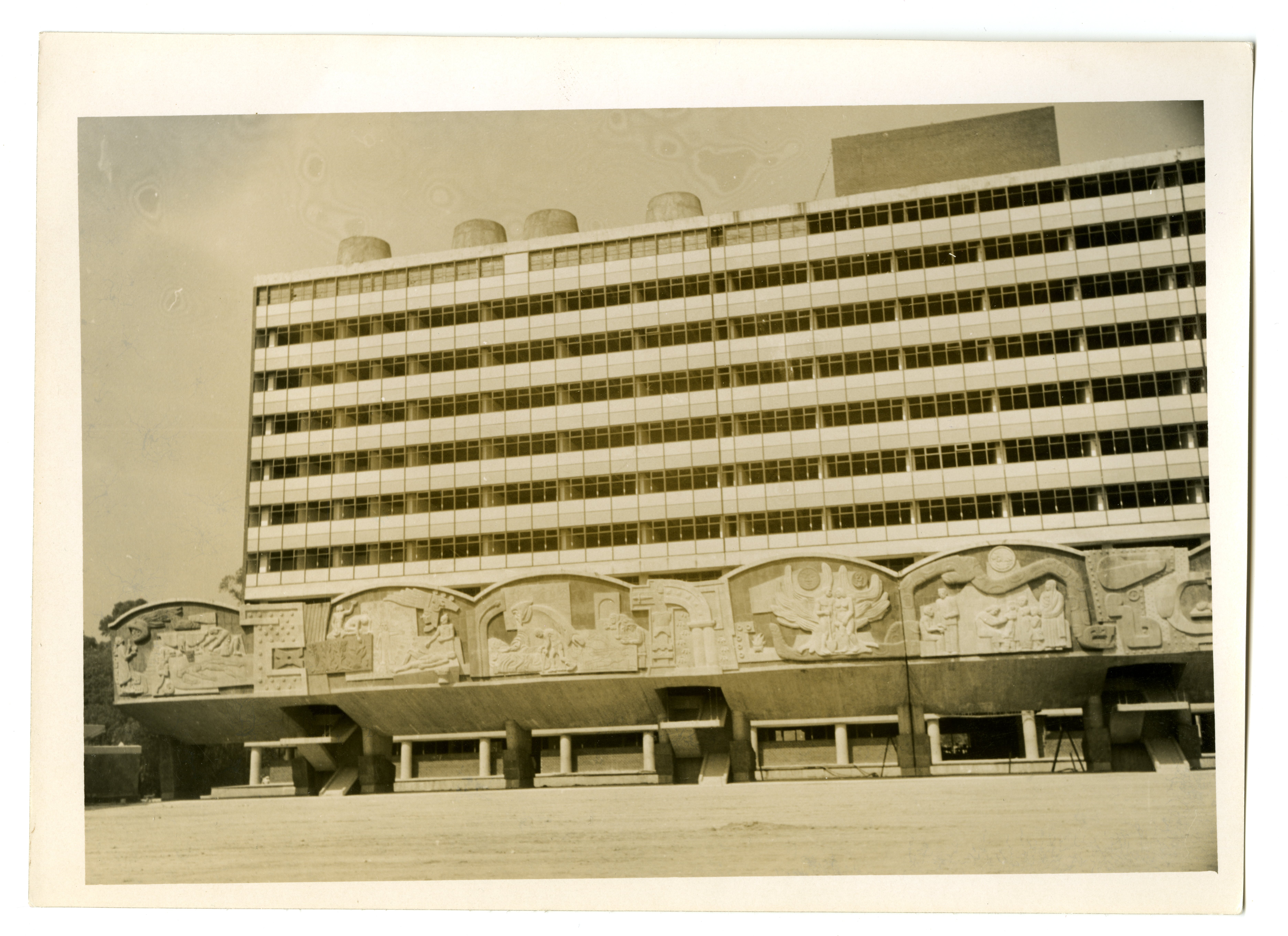 A frieze at National Medical Center Siglo XXI, Mexico, D.F., by Tomás Chávez Morado.